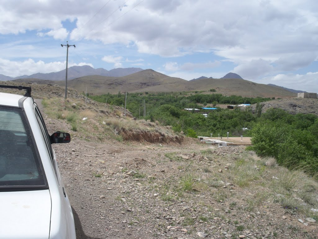 کوه قوقو